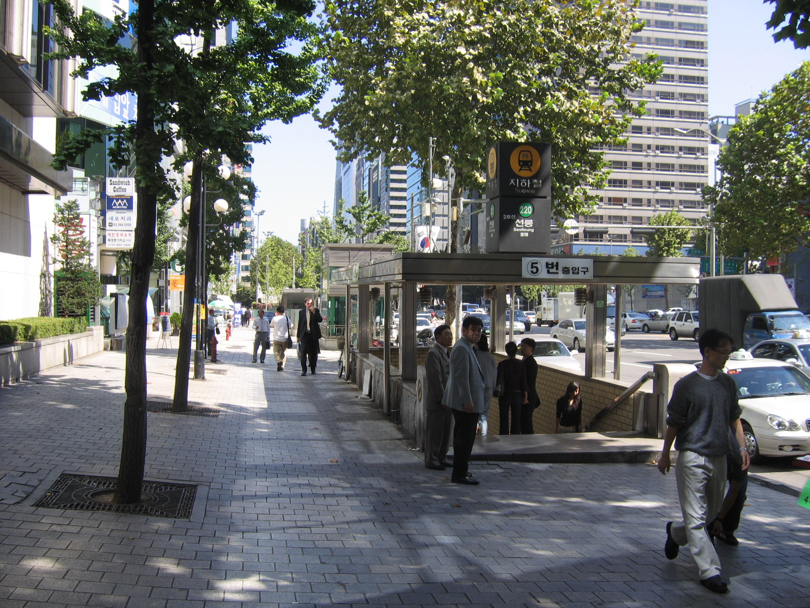 Seoul Metro line 2, Seolleung Station